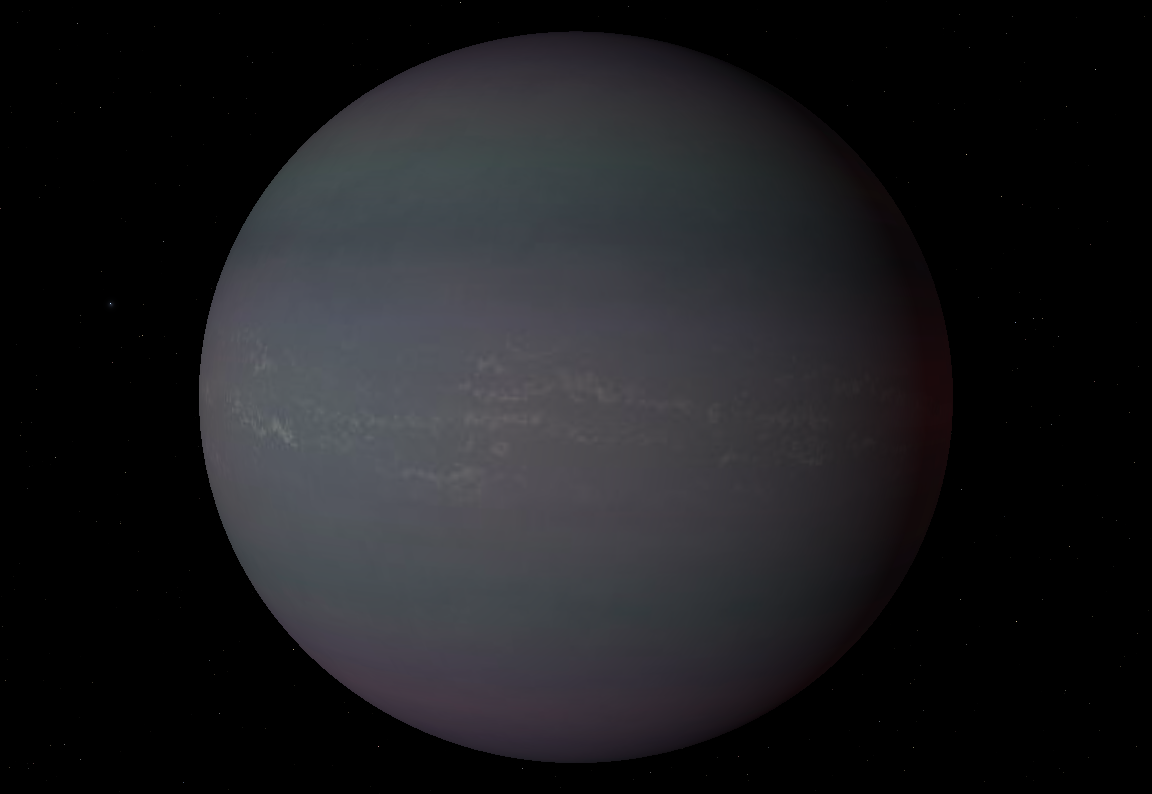 Class IV exoplanet in Celestia.